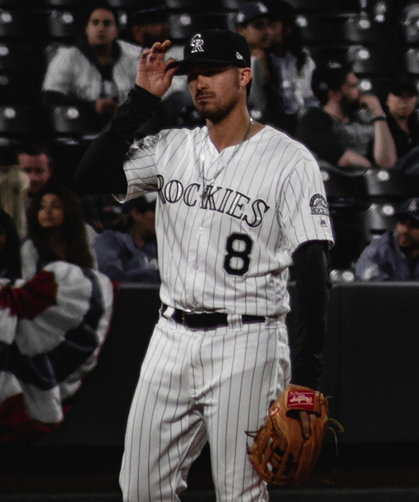 Josh Fuentes of the Colorado Rockies preparing himself at third base at Coors Field on April 7, 2019.